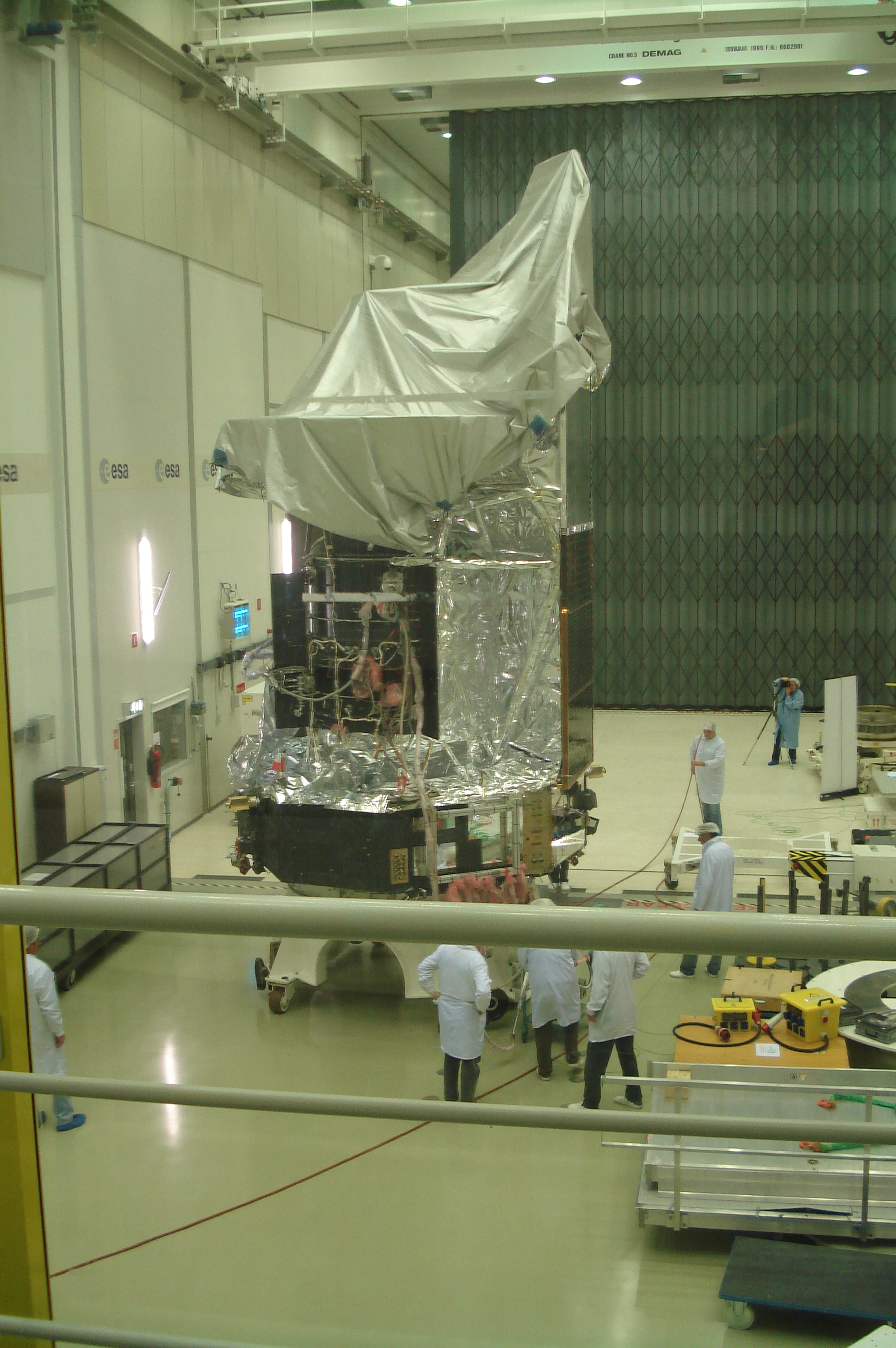 Herschel Space Observatory outside the Large Space Simulator at ESA's European Space Research and Technology Centre (ESTEC)